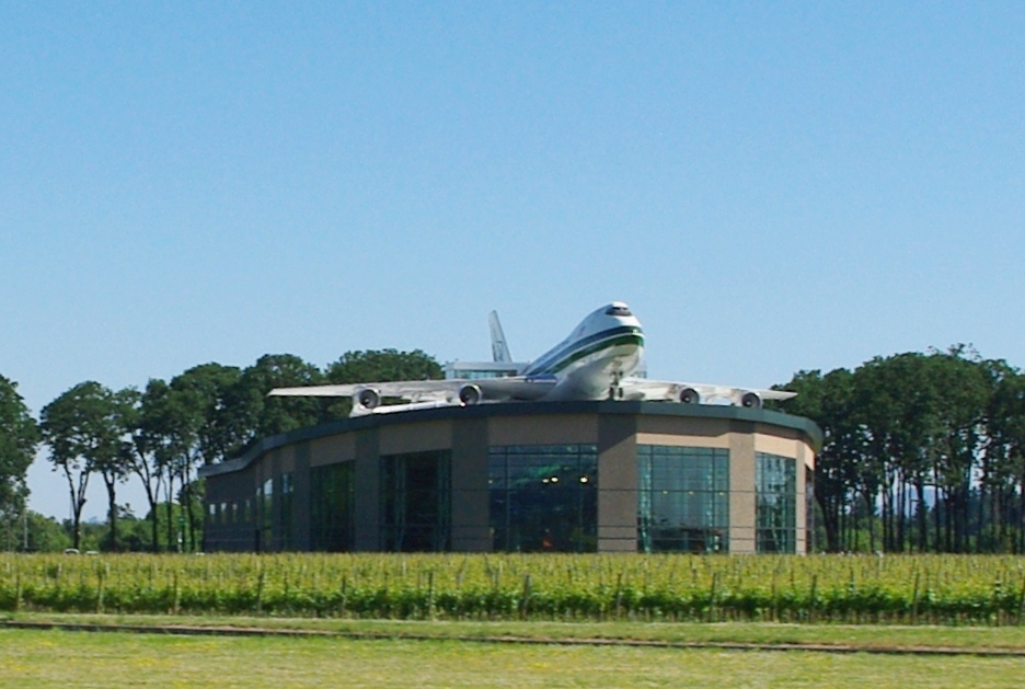 Evergreen Air and Space Museum's Boeing 747 water slide that opened in June 2011.